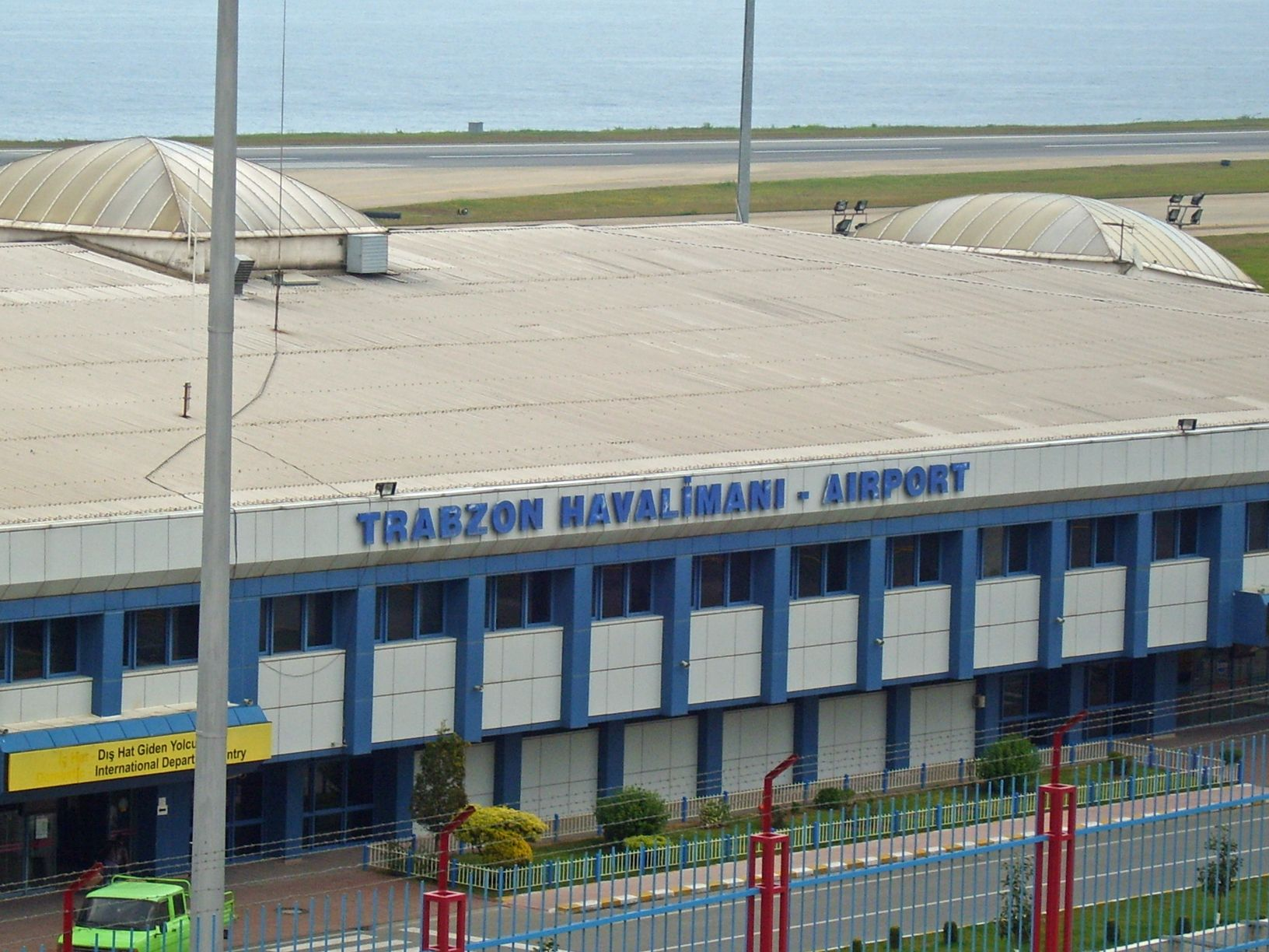 Trabzon Airport, Turkey